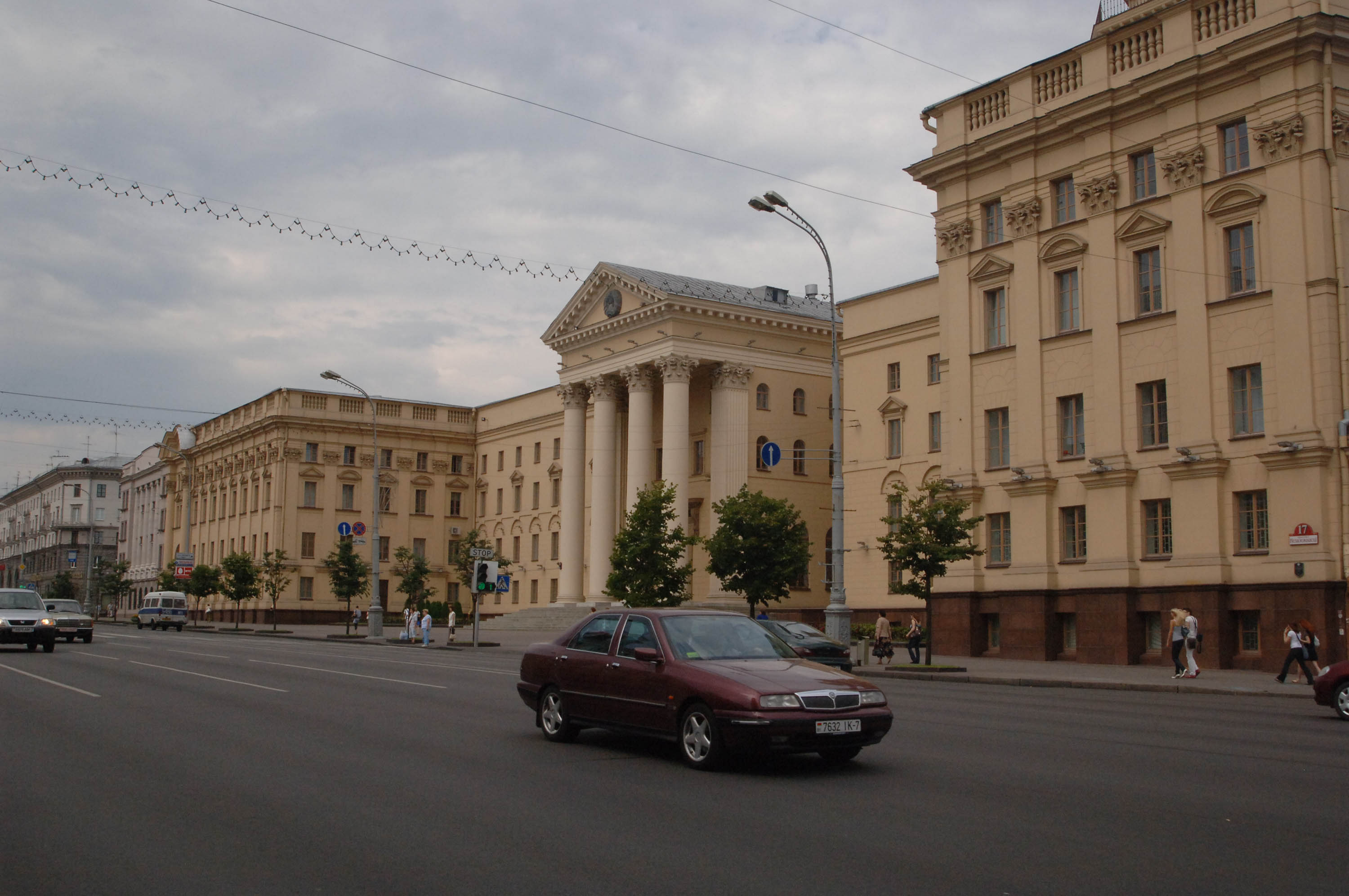 THIS WAS FIRST BUILDING REBUILT IN MINSK FOLLOWING WORLD WAR II